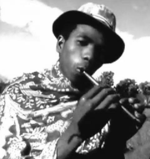 Sodina, a traditional flute played in Madagascar. Lemurbaby (talk) 19:32, 21 November 2010 (UTC)